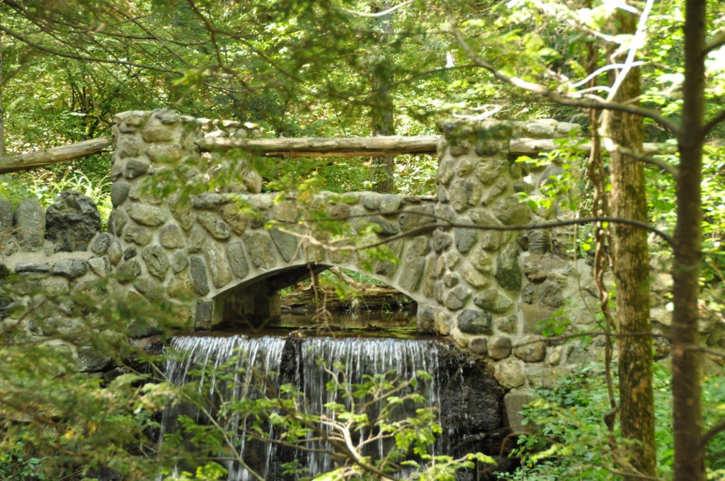 A stone foot bridge crossing an 18th century dam in the Spot Pond Archeological District of the Middlesex Fells Reservation in Stoneham, Massachusetts.